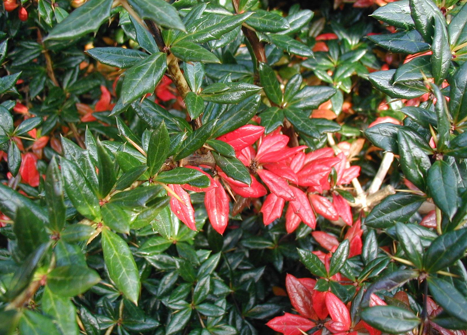 Berberis verruculosa: Autumn colours.